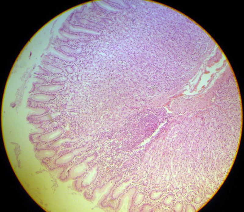 Histologic specimen of gastric fundus gland.